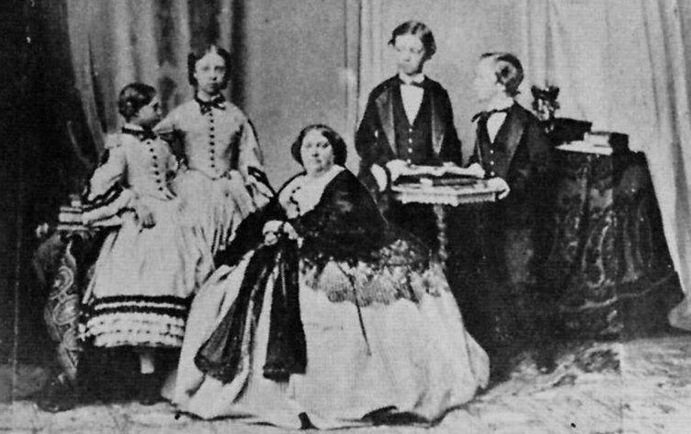 Louise Marie Thérèse d'Artois, Duchess of Parma and her four children, 1865